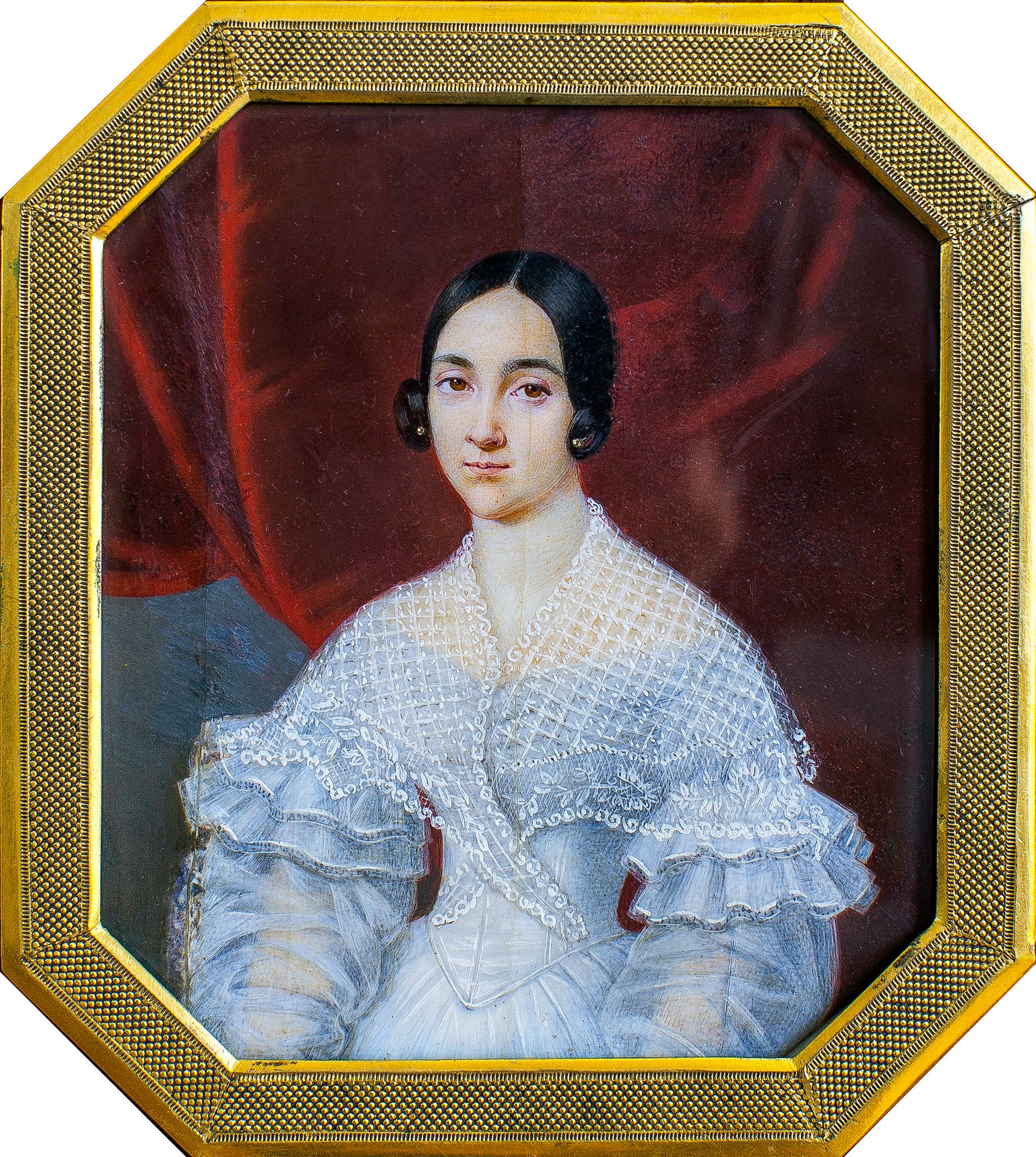 Ekaterina Goncharova baronessa Gekkern